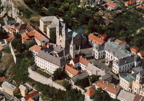 Veszprém, castle, Hungary, aerialphotography